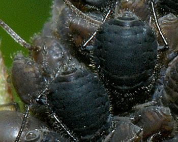 Anoecia corni apterous fundatrices on Cornus sanguinea